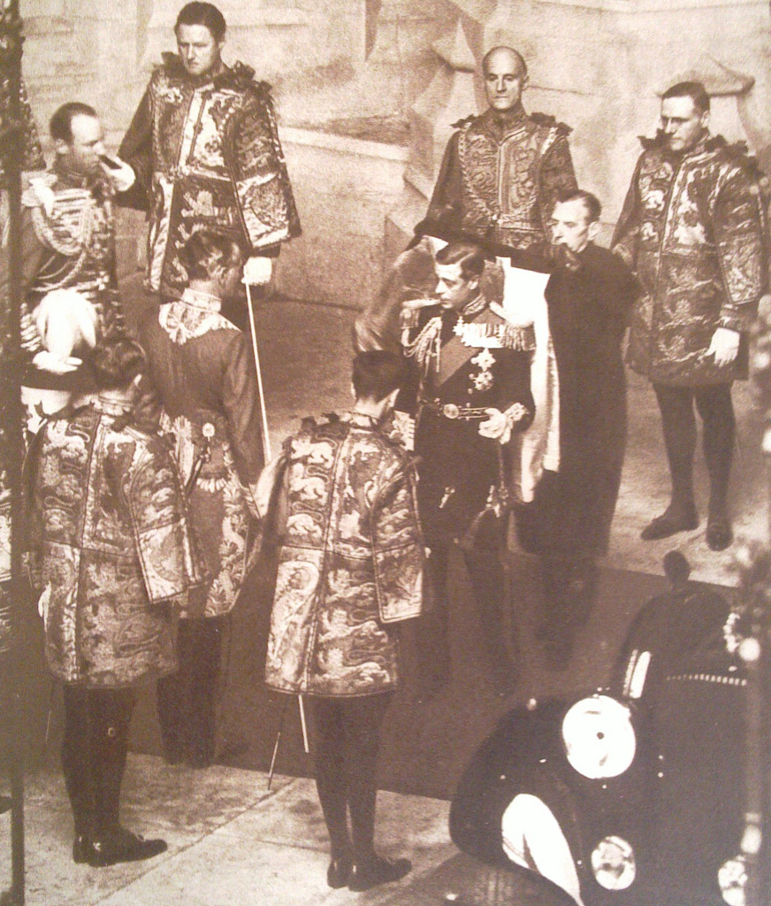 King Edward VIII opening his first (and only) Parliament, seen here in the House of Lords. Original caption: "HIS FIRST PARLIAMENT OPENED King Edward, surrounded by Heralds and Pursuivants, preparing to leave the House of Lords."